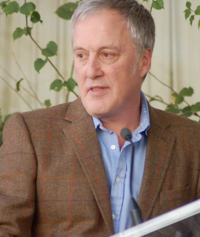 Bruno Heller at a ceremony for Simon Baker to receive a star on the Hollywood Walk of Fame.